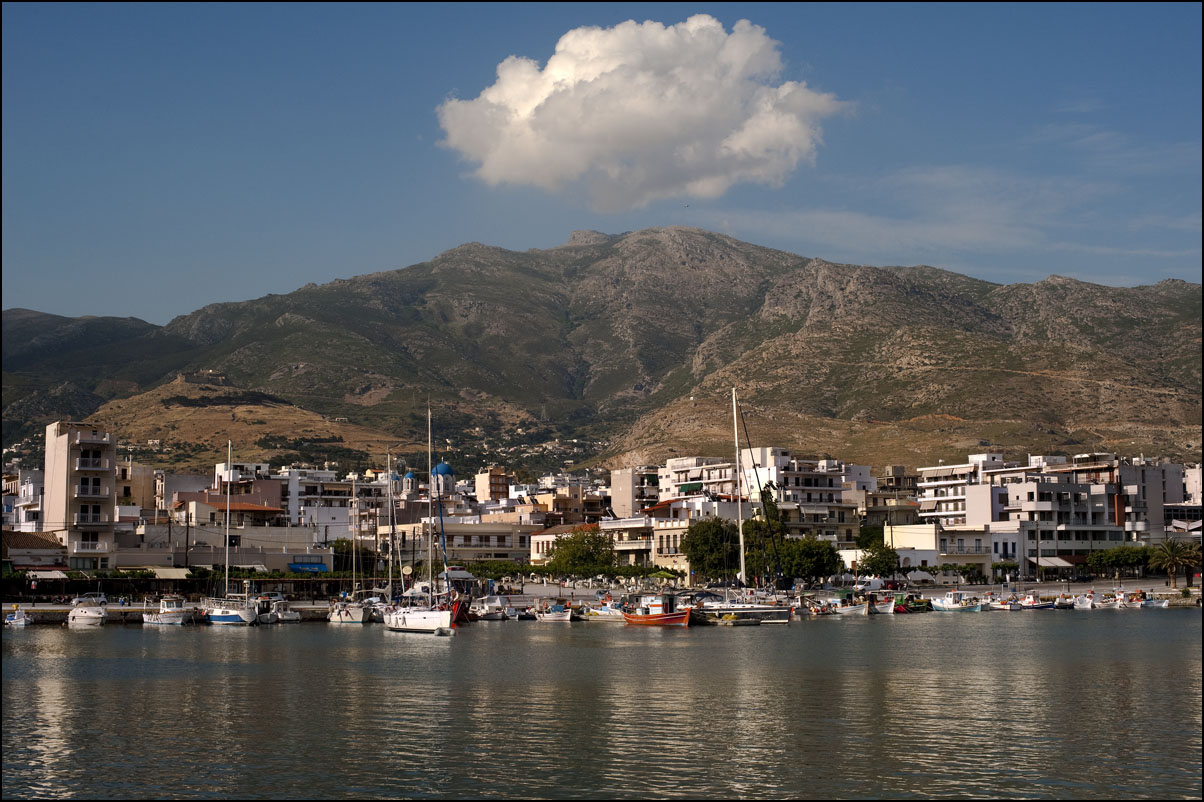 View (from the port) of Karystos city, Evia island, Greece.